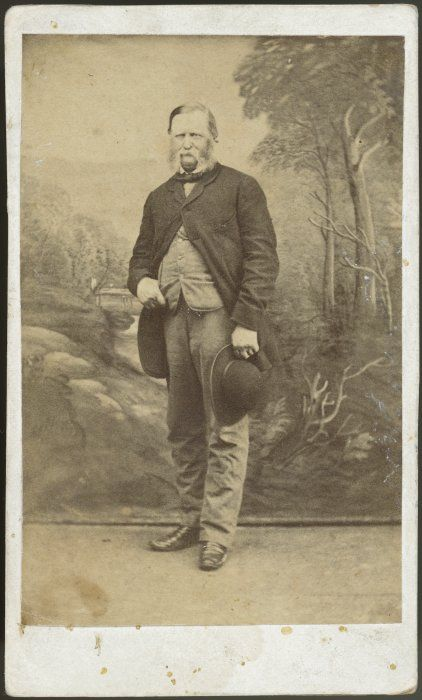 Sir William Fox, between 1880-1893